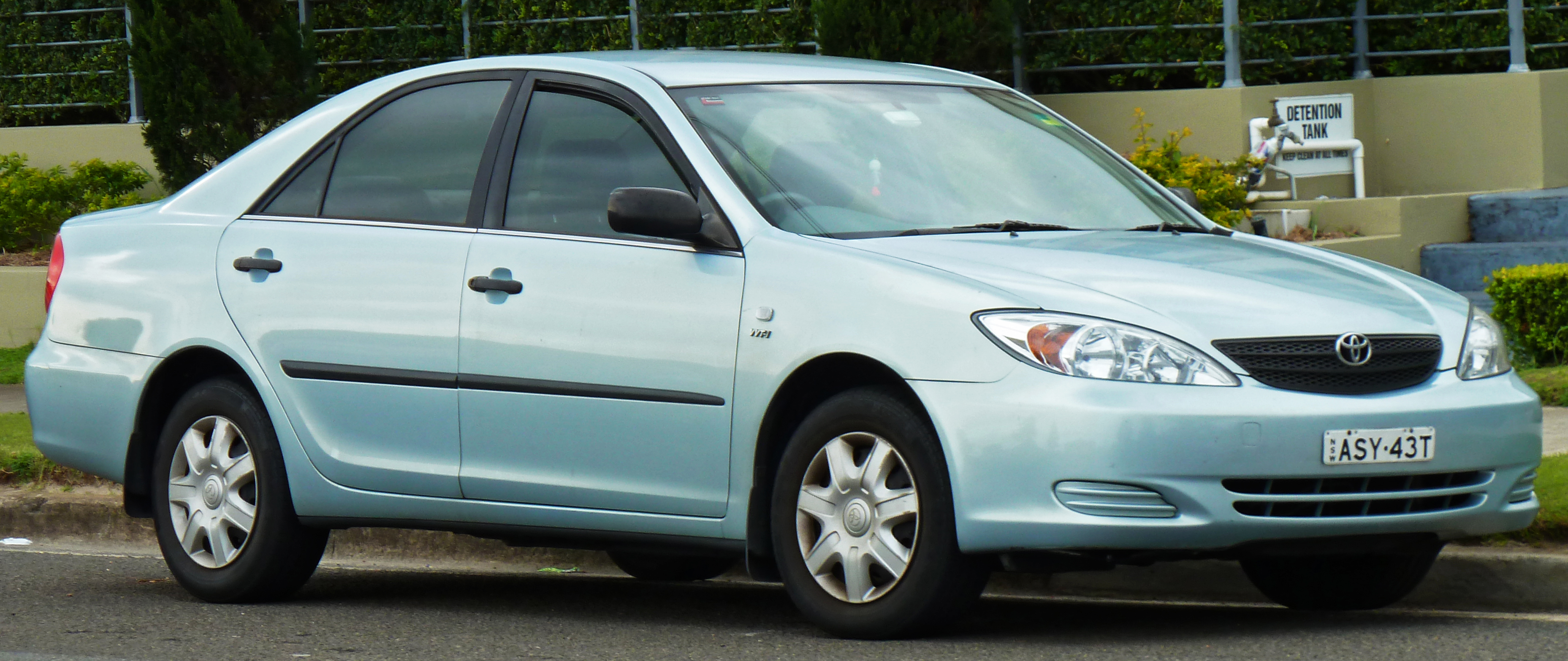 2002–2004 Toyota Camry (ACV36R) Altise sedan. Photographed in Sans Souci, New South Wales, Australia.